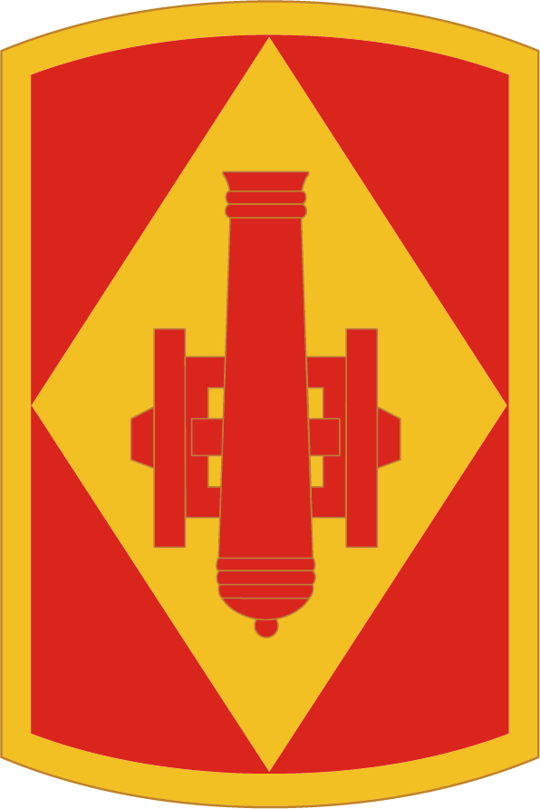 US Army - 75th Field Artillery Brigade Shoulder Sleeve Insignia